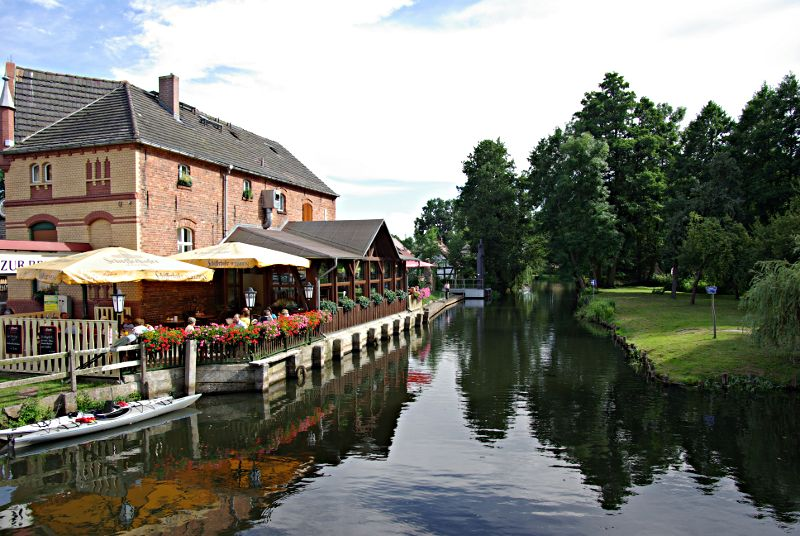 Schlepzig one of the gates to the Spreewald